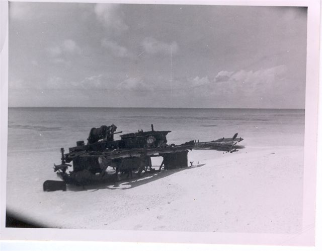 Skeleton of WWII Japanese landing craft as found by USS STEUBEN COUNTY landing party, Sibylla Island, Taongi Atoll, RMI.